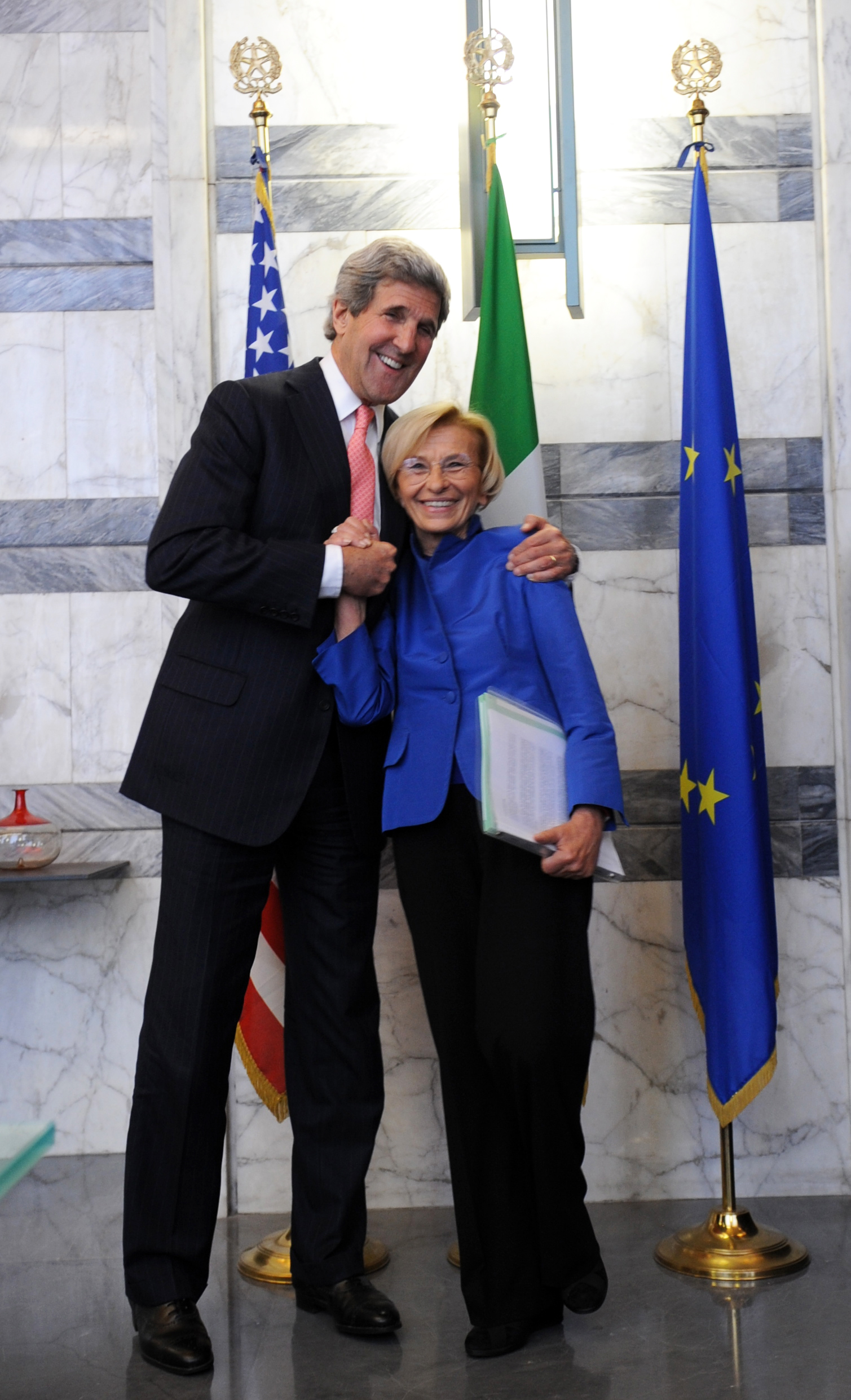 U.S. Secretary of State John Kerry and Italian Foreign Minister Emma Bonino pose for a photo before their meeting in Rome, Italy, on May 9, 2013. [State Department photo/ Public Domain]